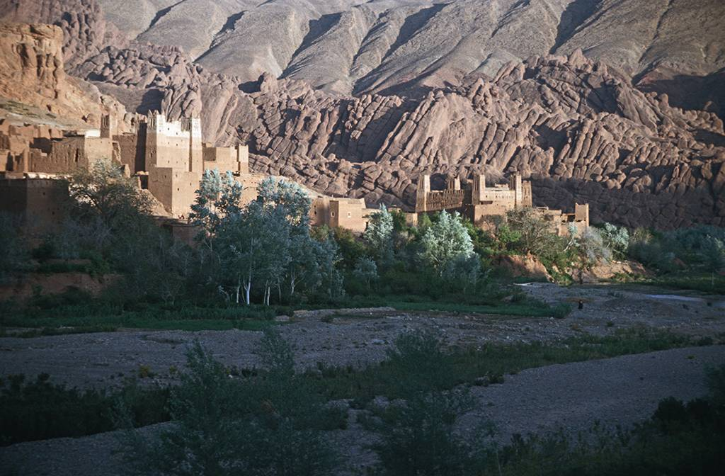 Dadès Gorges in Morocco